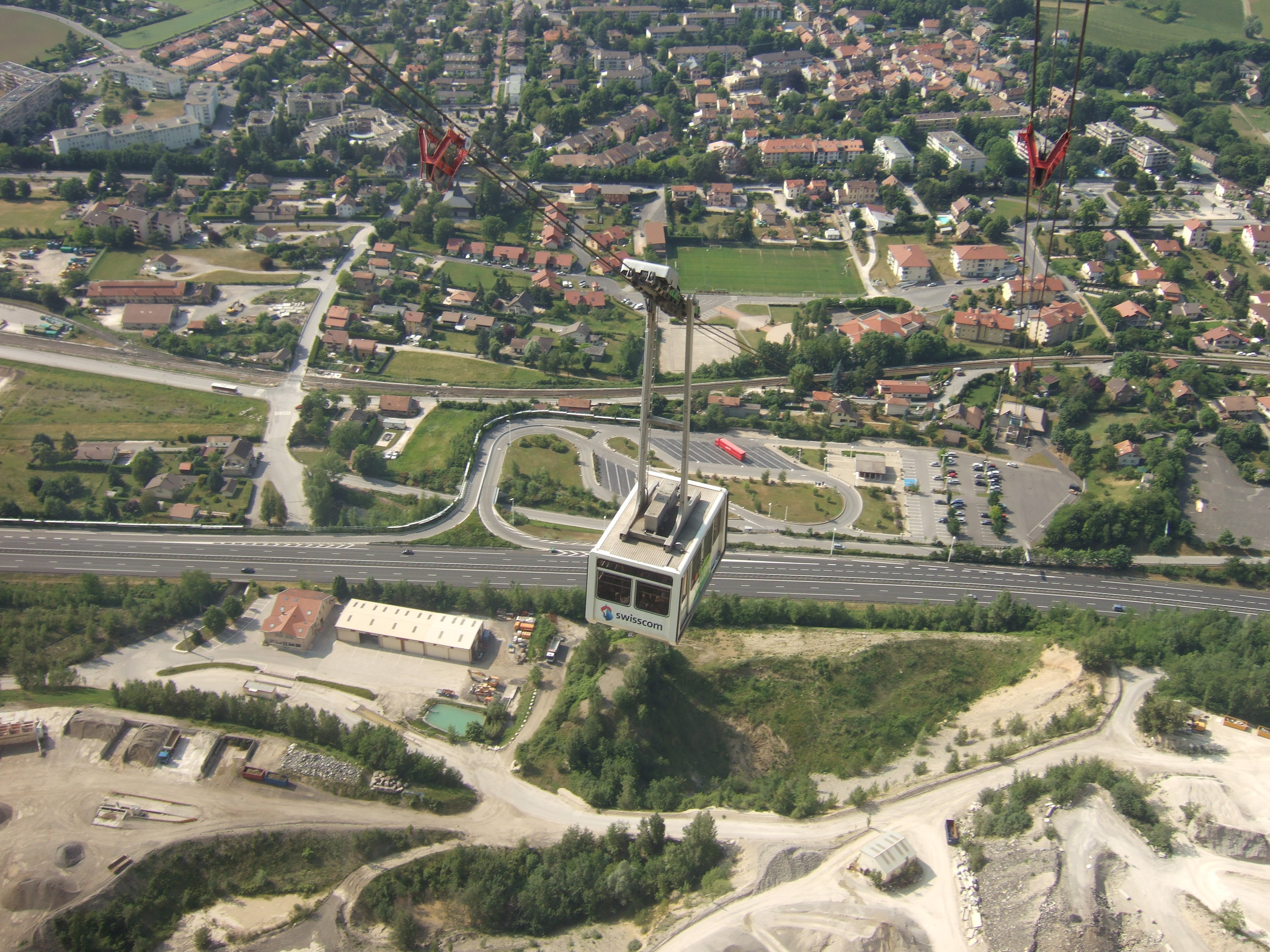 Photo taken from descending car of Telepherique du Saleve down into Veyrier as the ascending car passes.